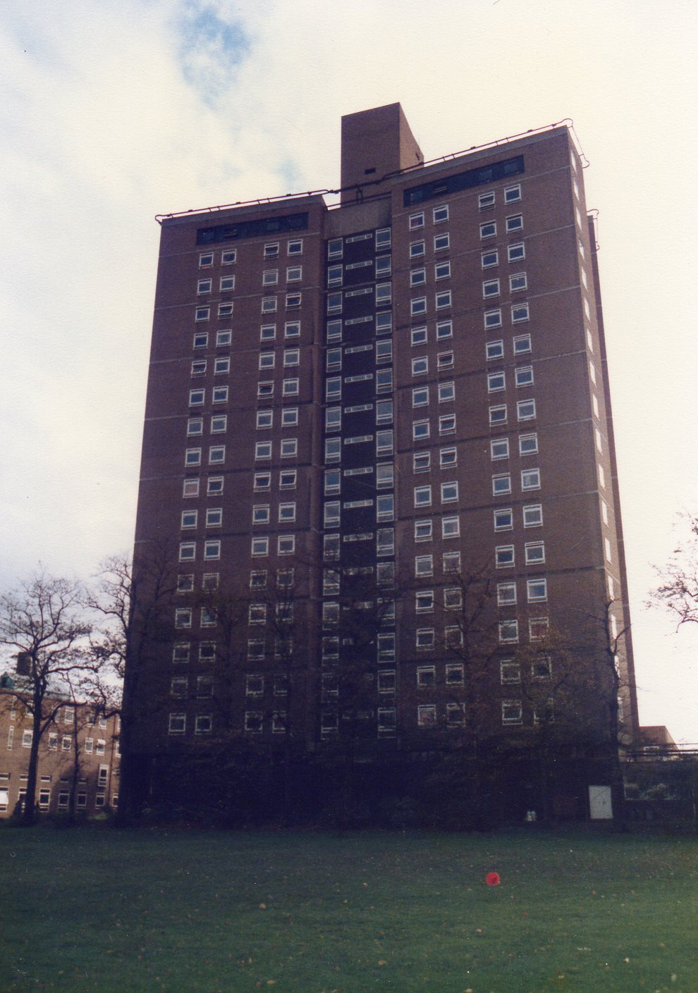 Tower Block, Owens Park, Wilmslow Road, Manchester. Accomodation for students of the University of Manchester. Taken in 1985.